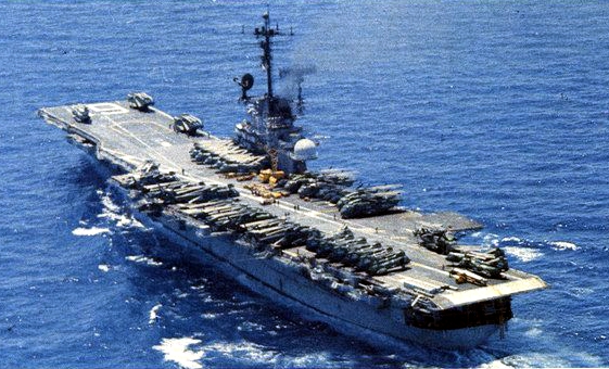 The U.S. Navy aircraft carrier USS Hancock (CVA-19) in April 1975, carrying Sikorsky CH-53 Sea Stallion helicopters of Heavy Marine Helicopter Squadron HMH-463, and Boeing-Vertol CH-46 Sea Knights and Bell UH-1E Hueys from Marine Light Helicopter Squadron HML-367 (reinforced) en route from Subic Bay, Philippines, to Vietnam, to take part in operations "Eagle Pull" and "Frequent Wind". Most of her regular air group had been flown to Subic Bay.